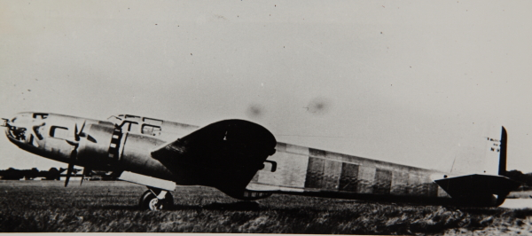 Bloch MB.131